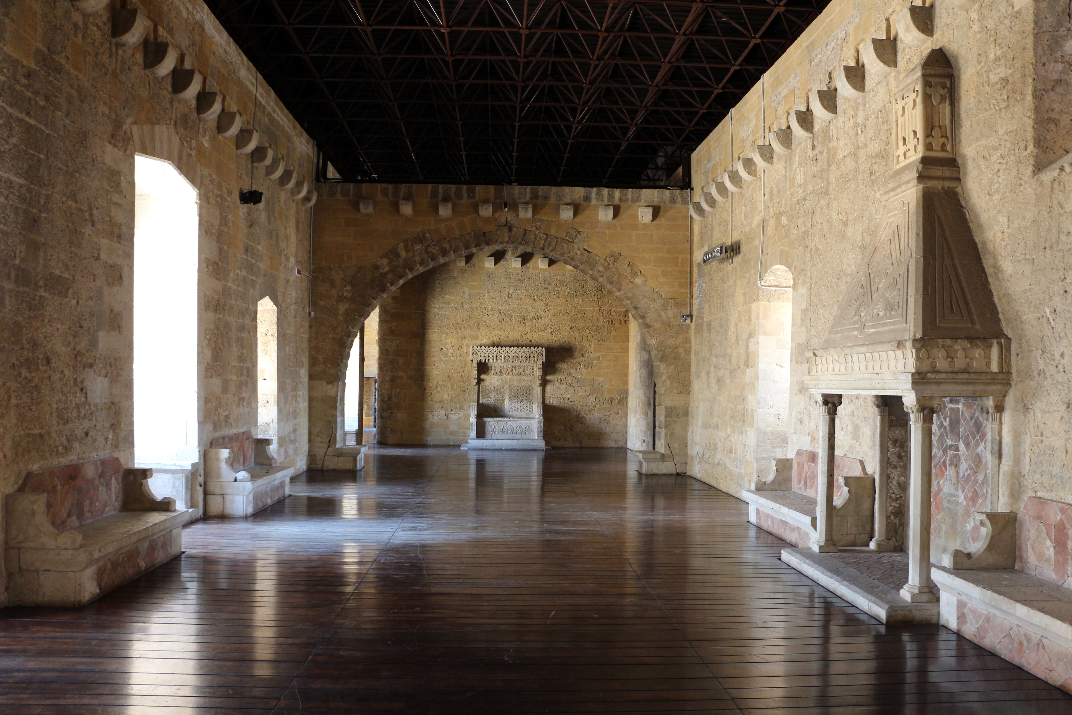 Castello normanno-svevo (Gioia del Colle) - Interior